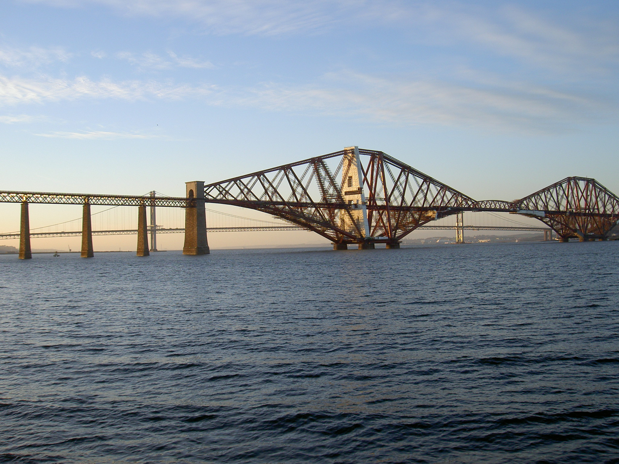 The Forth Bridge at sunset